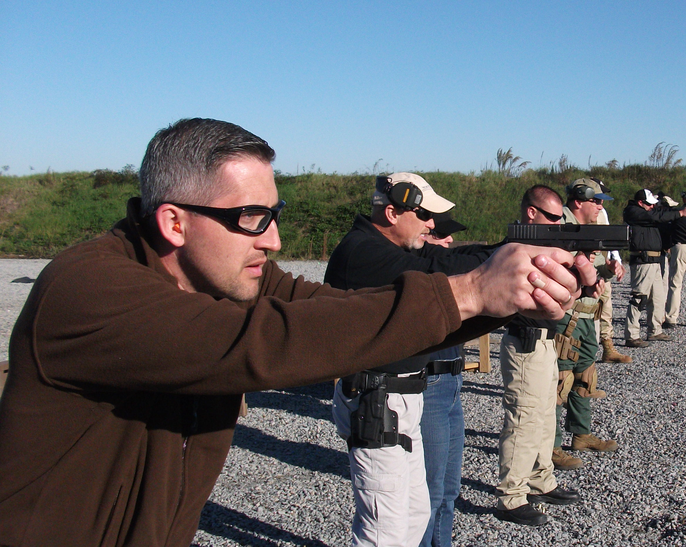 Men taking part in handgun training in rural North Carolina.